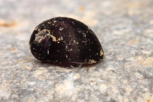 Theodoxus prevostianus, Bad Vöslau, Lower Austria